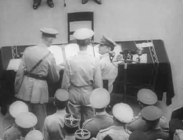 General MacArthur gives one of the pens he used to sign the Japan capitulation documents (2 september 1945) to Lieutenant-General Arthur Percival